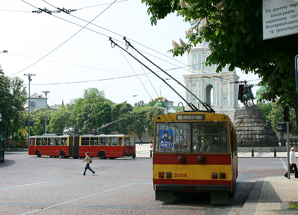 Trolleybus in Kiev, Ukraine